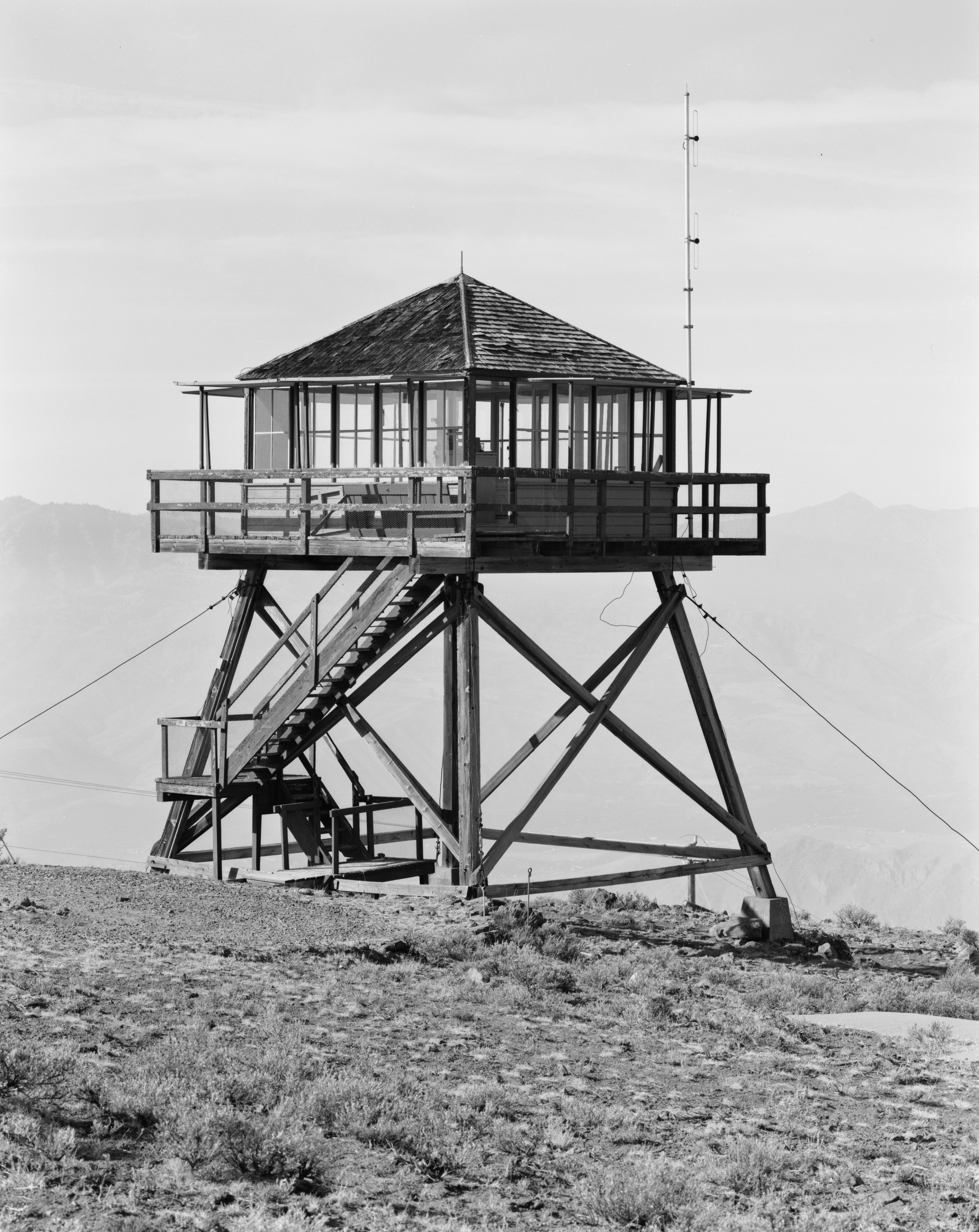 Badger Mountain Lookout, near East Wenatchee, Washington.